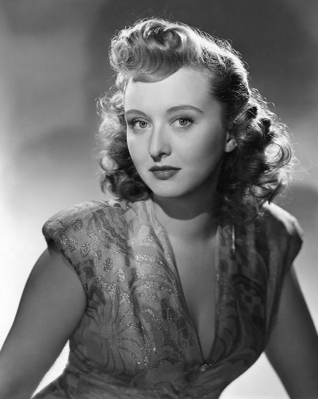 Promotional photograph of actor Celeste Holm (1947)